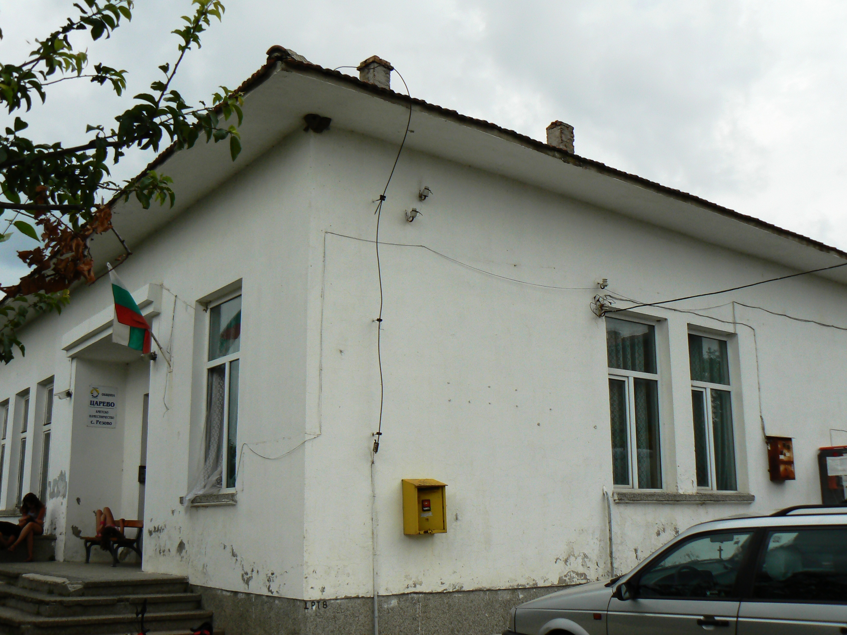 Mayor's office in village Rezovo, Bulgaria